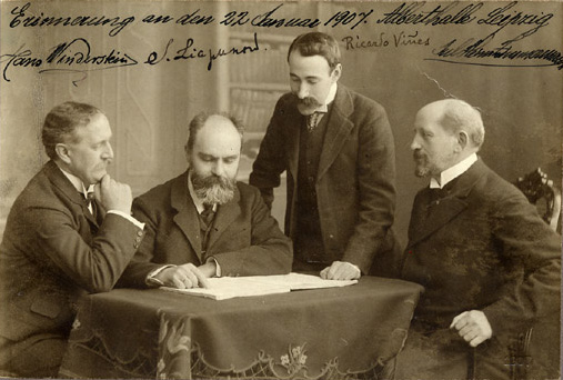 Conductor Hans Winderstein (far left), composer Sergei Liapunov (2nd from left), pianist Ricardo Viñes (3rd from left) and publisher Julius Heinrich Zimmermann (far right) in Leipzig.